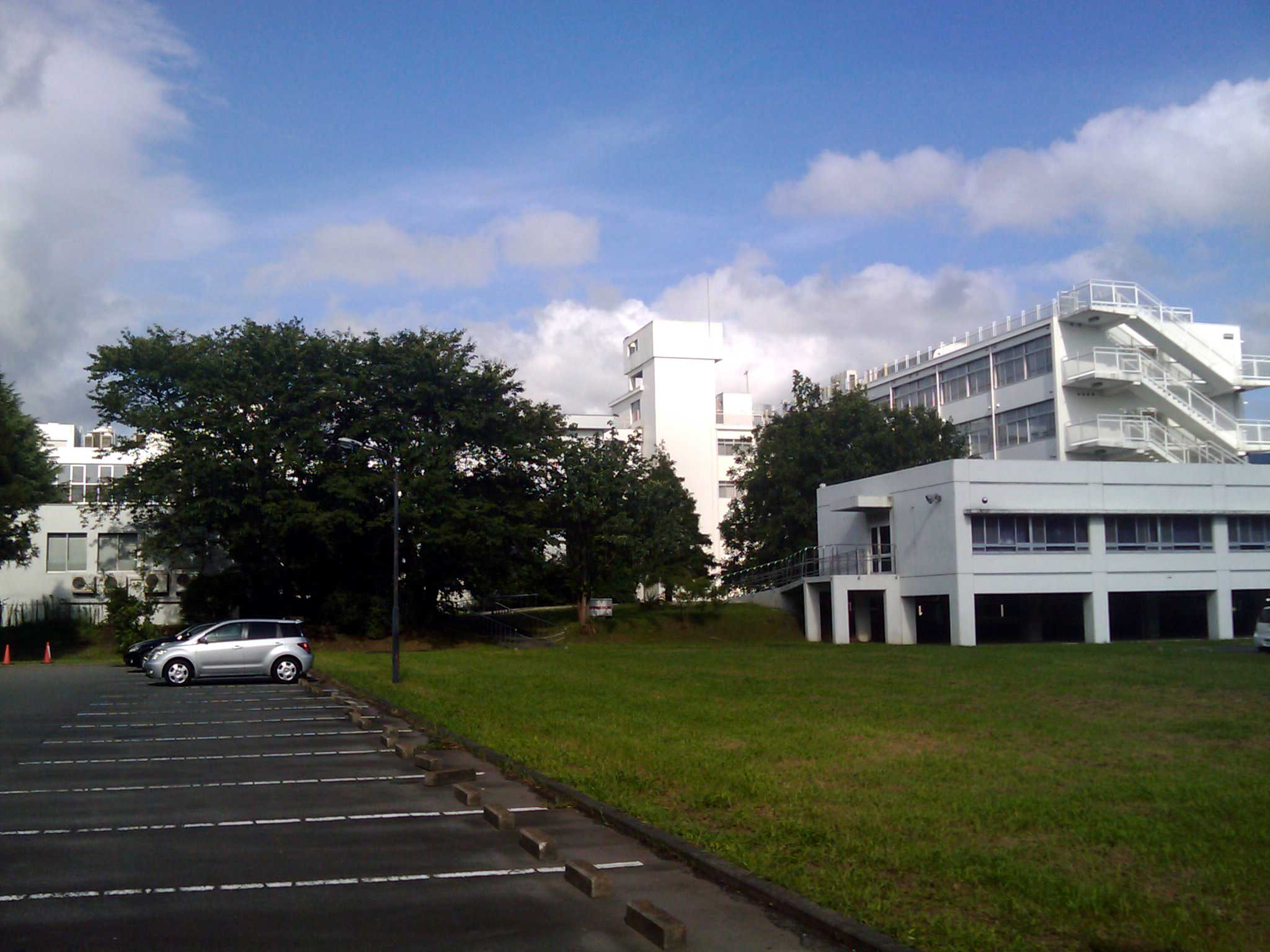 NTT Izu Teishin Hospital